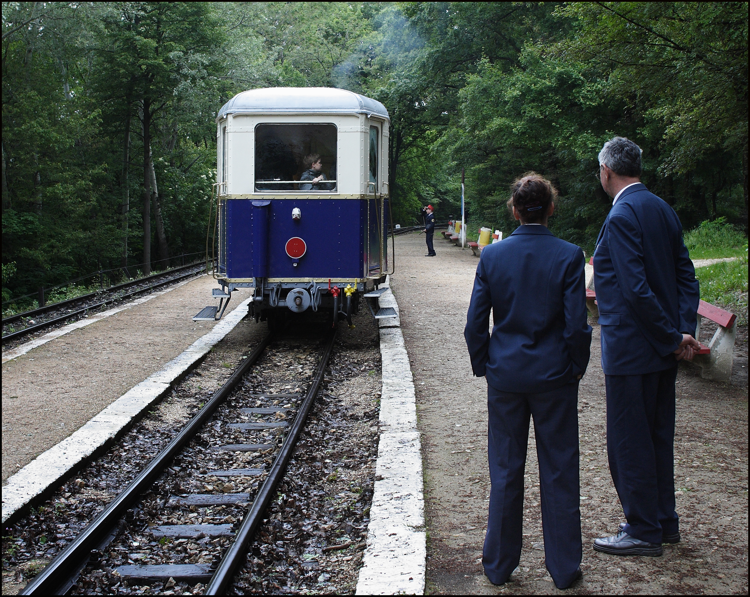 Janos-hegy station, Childrens Railway (5/14 jn55) Stopping point for a tramp through the forest up to the viewing tower.